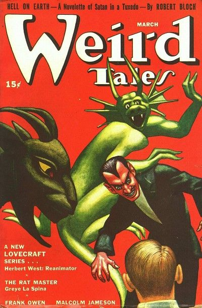 Cover of the pulp magazine Weird Tales (March 1942, vol. 36, no. 4) featuring Hell on Earth by Robert Bloch and Herbert West: Reanimator by H. P. Lovecraft. Cover art by Hannes Bok.